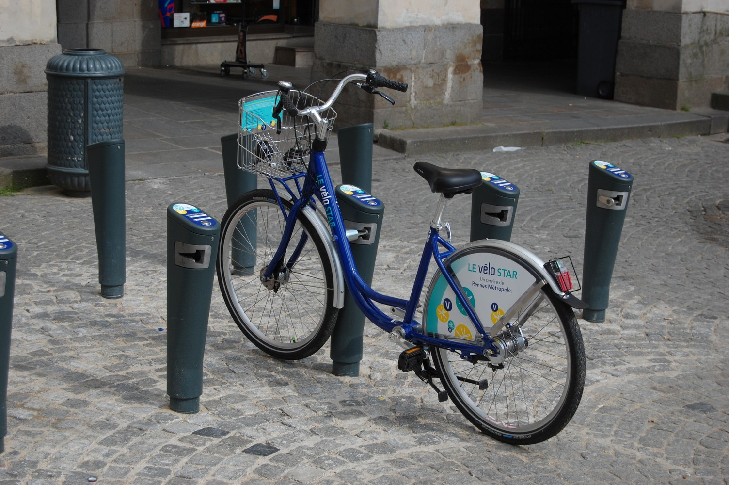 LE vélo STAR, bicycle sharing system in Rennes (France).